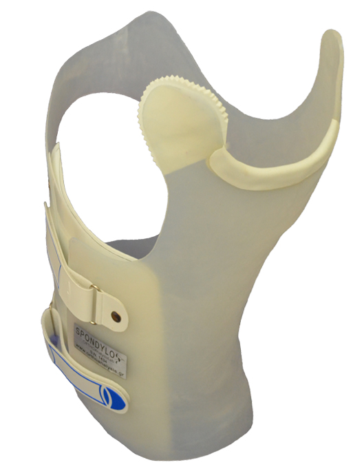 Crass Cheneau scoliosis brace